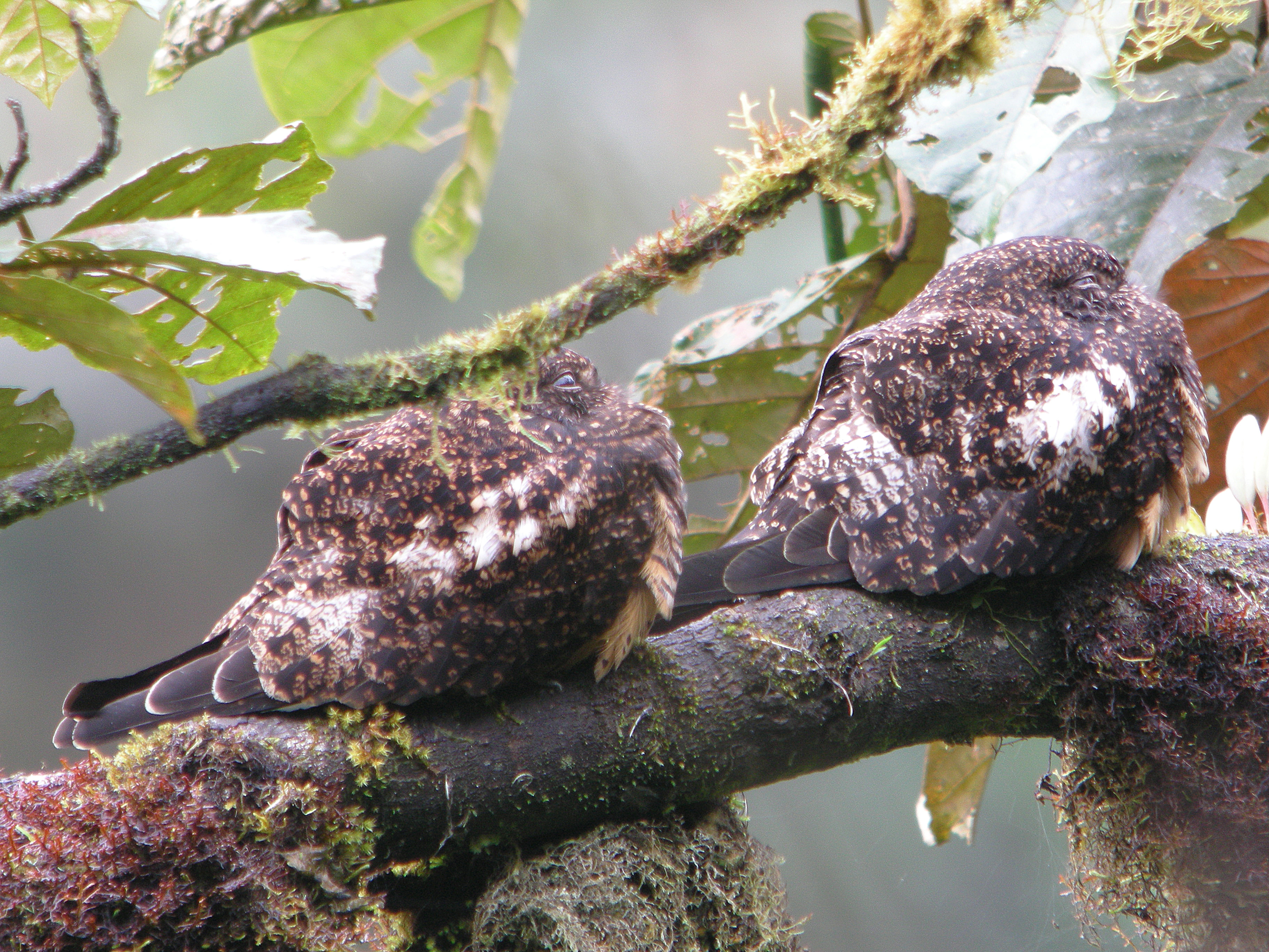 Rufous-bellied Nighthawk (Lurocalis rufiventris), Angel Paz's near Mindo, Ecuador